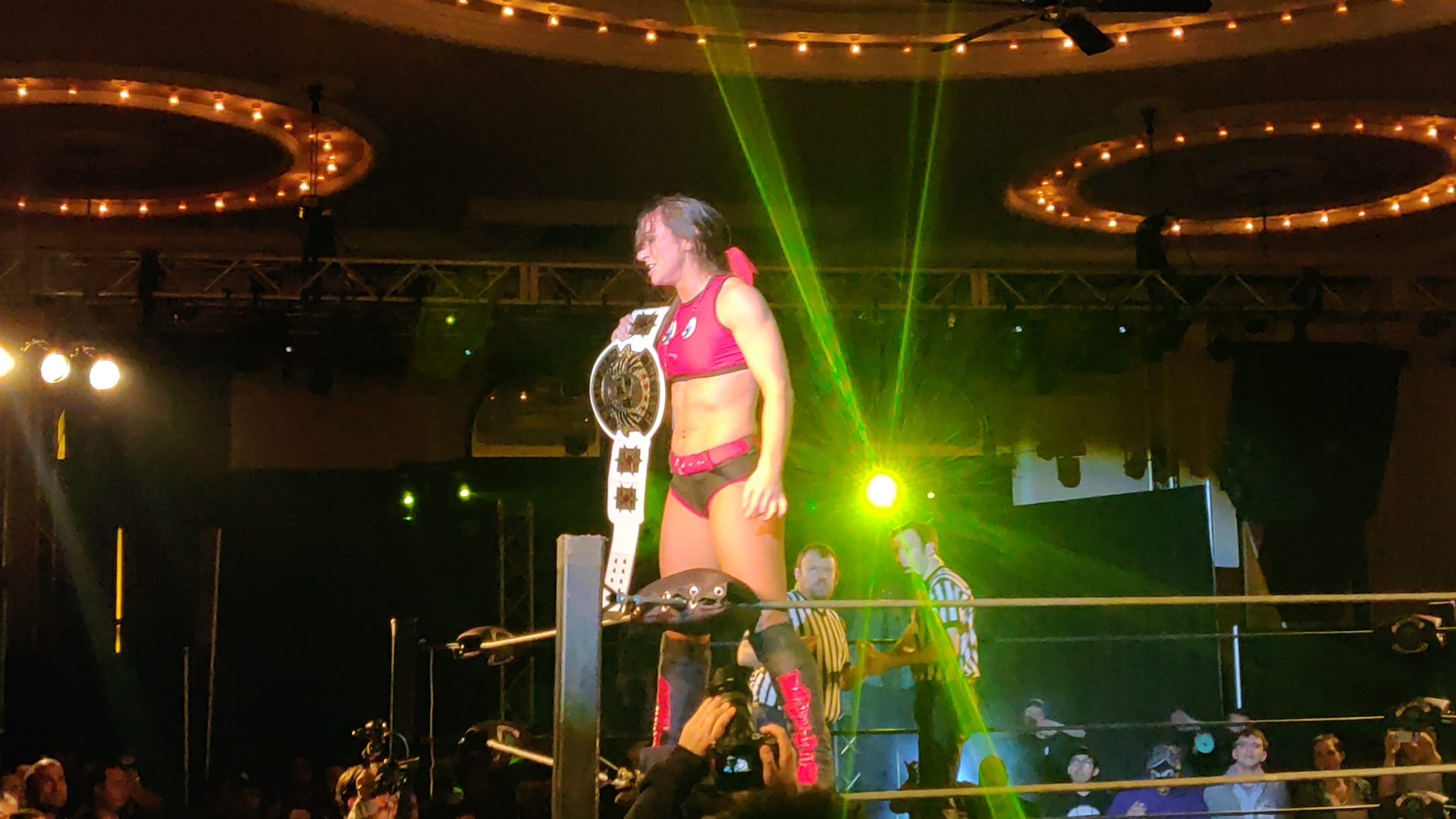 picture taken at the Logan Square Auditorium in Chicago, Illinois.